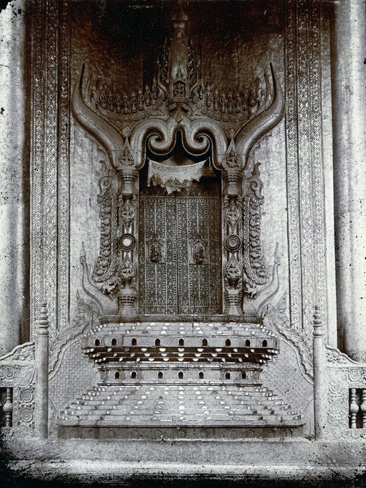 Photograph of the Lion Throne in the Royal Palace at Mandalay, probably taken by Felice Beato in c.1890. Mandalay, the second largest city in Burma, was founded in 1857 by King Mindon Min (who shifted his capital here from Amarapura) and became the country's last great royal capital. Thibaw was the last king of Burma and ruled from 1878 until 1885, when Mandalay was annexed by the British Empire and he was exiled to south India together with his queen Supayalat. His throne dominated the Great Audience Hall and was one of eight in the palace. It is a magnificent gilded wooden structure topped with a pediment decorated with flaring ornamental forms known as saing-baung, derived from the haunches of a wild ox. It is decorated with floral designs, glass mosaic work and carved imagery including divine beings, astrological symbols, and lions, from which the throne takes its name. The imagery was designed to express the universality of the monarch and links the throne to the heavenly realm of Thagyamin, the king of the gods, and Mount Meru, the sacred mountain at the centre of the world in Burmese Buddhist cosmology. It dates from 1857-61 and is now in the National Museum at Rangoon (Yangon). The photograph is from an album devoted almost entirely to Lord Elgin's Burma tour of November to December 1898. Victor Alexander Bruce (1849-1917), ninth Earl of Elgin and 13th Earl of Kincardine, served as Viceroy of India between 1894 and 1899.